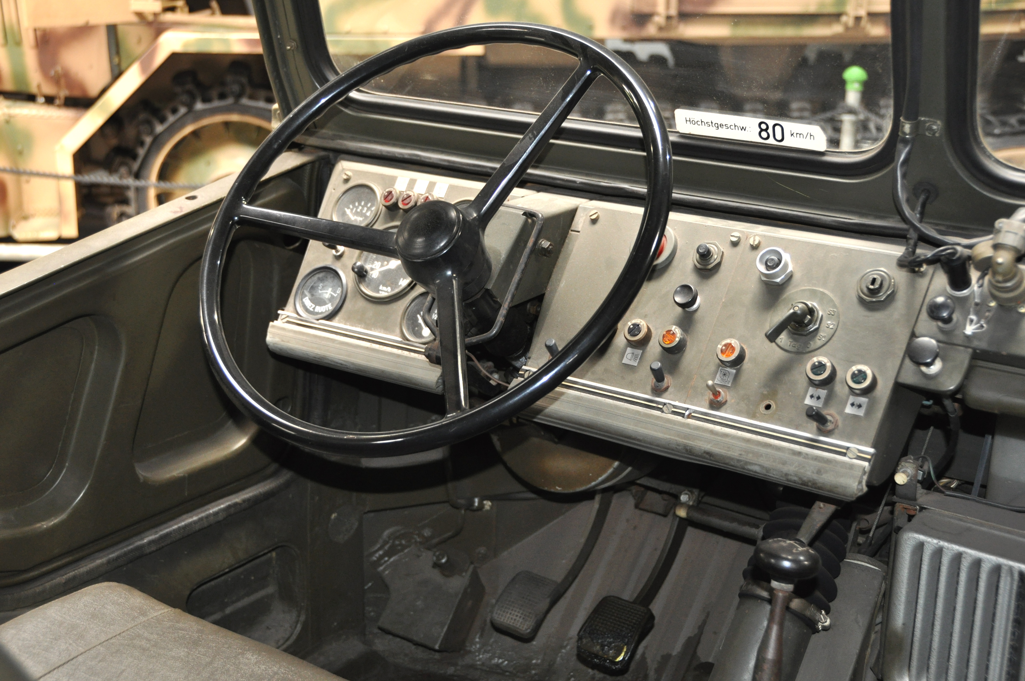 Dashboard of an Europa-Jeep (Type Fiat-MAN-Saviem) Wehrtechnische Studiensammlung Koblenz, Germany